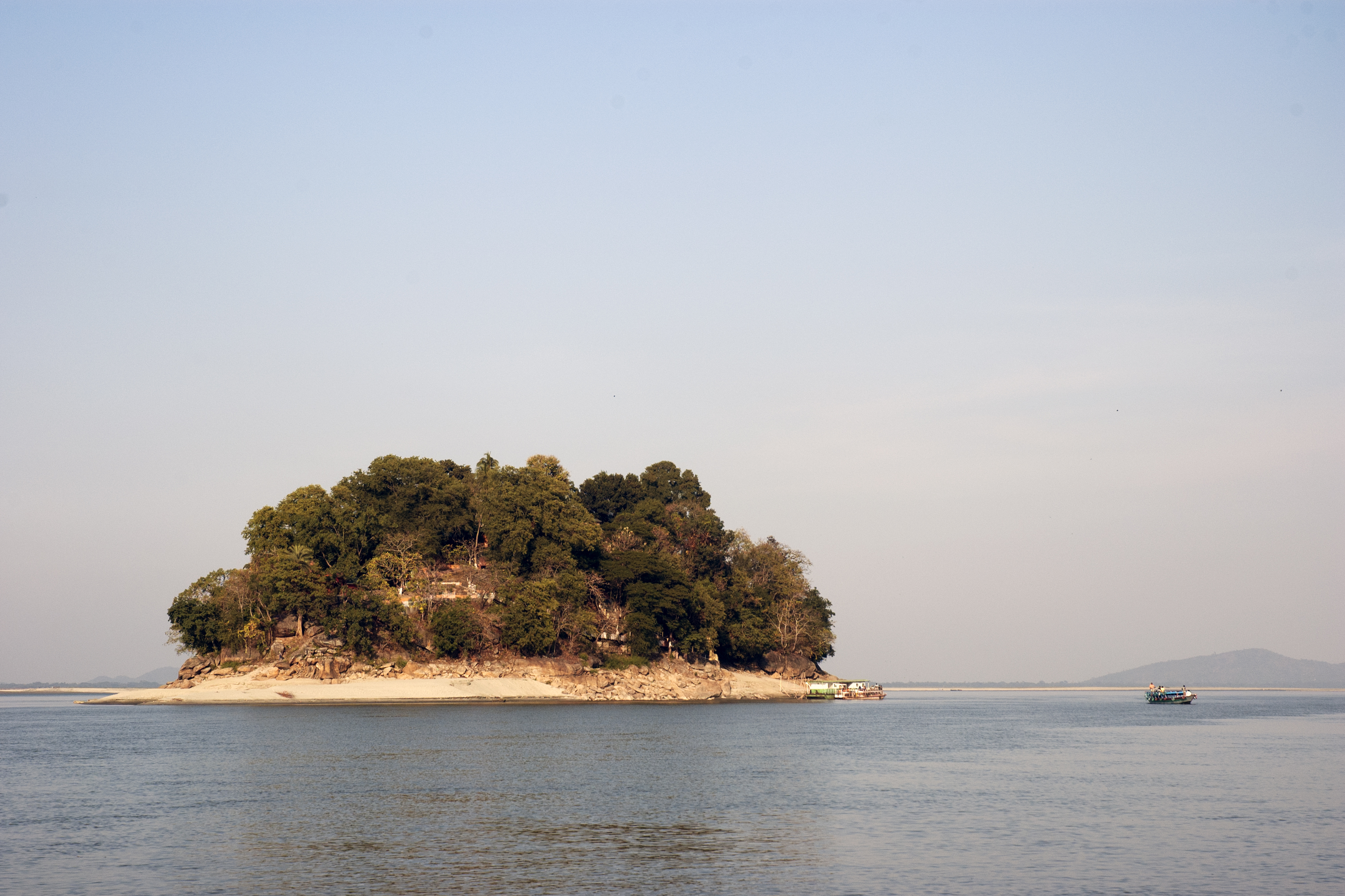 Umananda island on which Golden langurs were introduced